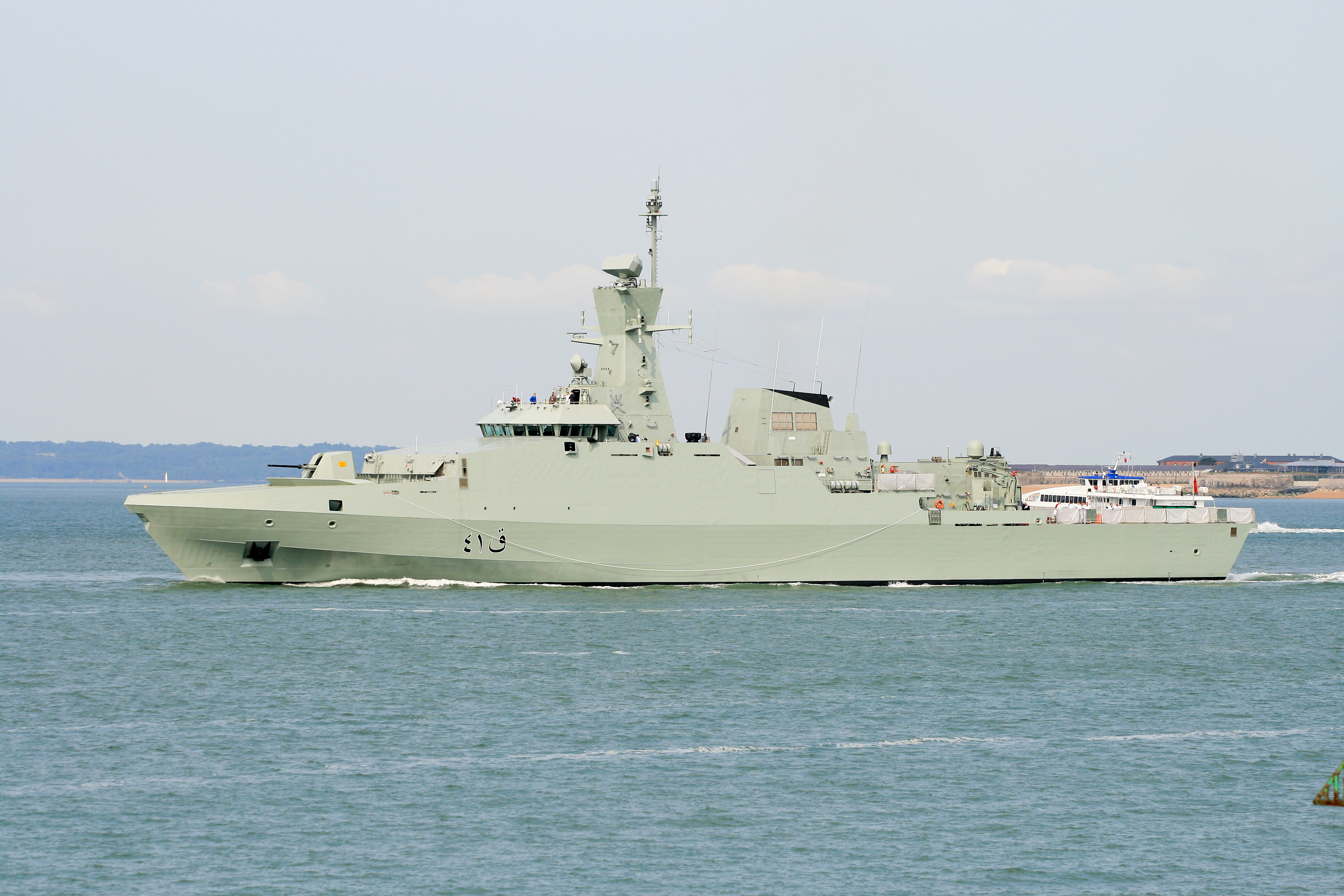 An Omani Navy corvette ONS Al Rahmani outward bound from Portsmouth Naval Base, UK, 27 June 2013 and still in builder's hands and flying the British Merchant Navy Red Ensign. A Khareef class corvette built by BAe Systems in Portsmouth. Wikipedia editors are reminded that the copyright remains with the photographer, and that the terms of the Creative Commons (CC), Attribution (BY), Share Alike (SA) CC-BY-SA-3.0 that allow editors to reuse this image apply to Wikipedia editors also, as they do to other re-users of this image. Breaches of the licence terms are not only unlawful, but are also antisocial, in that breaches discourage photographers from making their images freely available to everyone without payment. Wikipedia re-users are also reminded of the license terms that derivatives of this image should not imply that the adaptation is endorsed or approved by the author or copyright holder. Neither should derivatives be presented as the creation of the author or copyright holder, while clearly stating that the adaptation is a derivative of the original. Attribution online should be in this format Brian Burnell. On the printed page, a simpler form is acceptable - example: "Image: Brian Burnell".